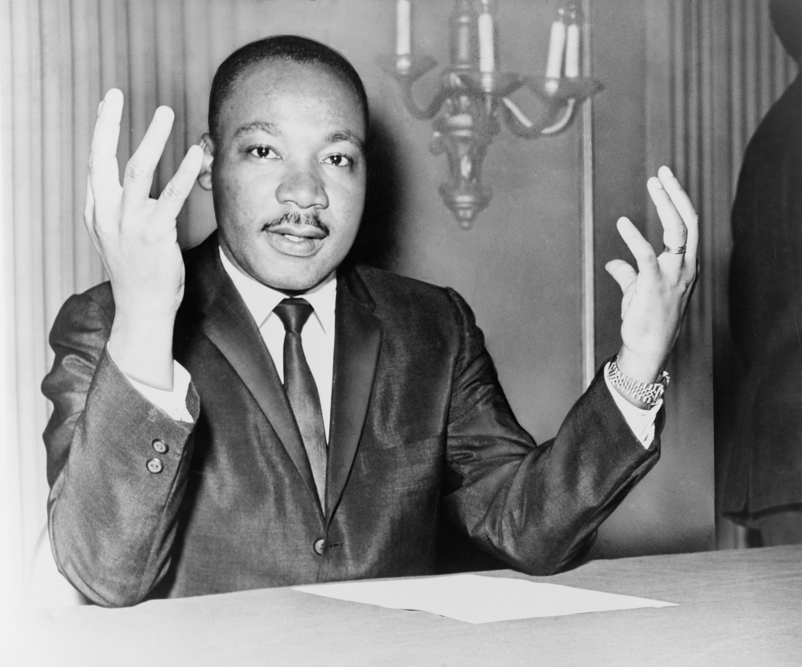 Rev. Martin Luther King, head-and-shoulders portrait, seated, facing front, hands extended upward, during a press conference / World Telegram & Sun photo by Dick DeMarsico.